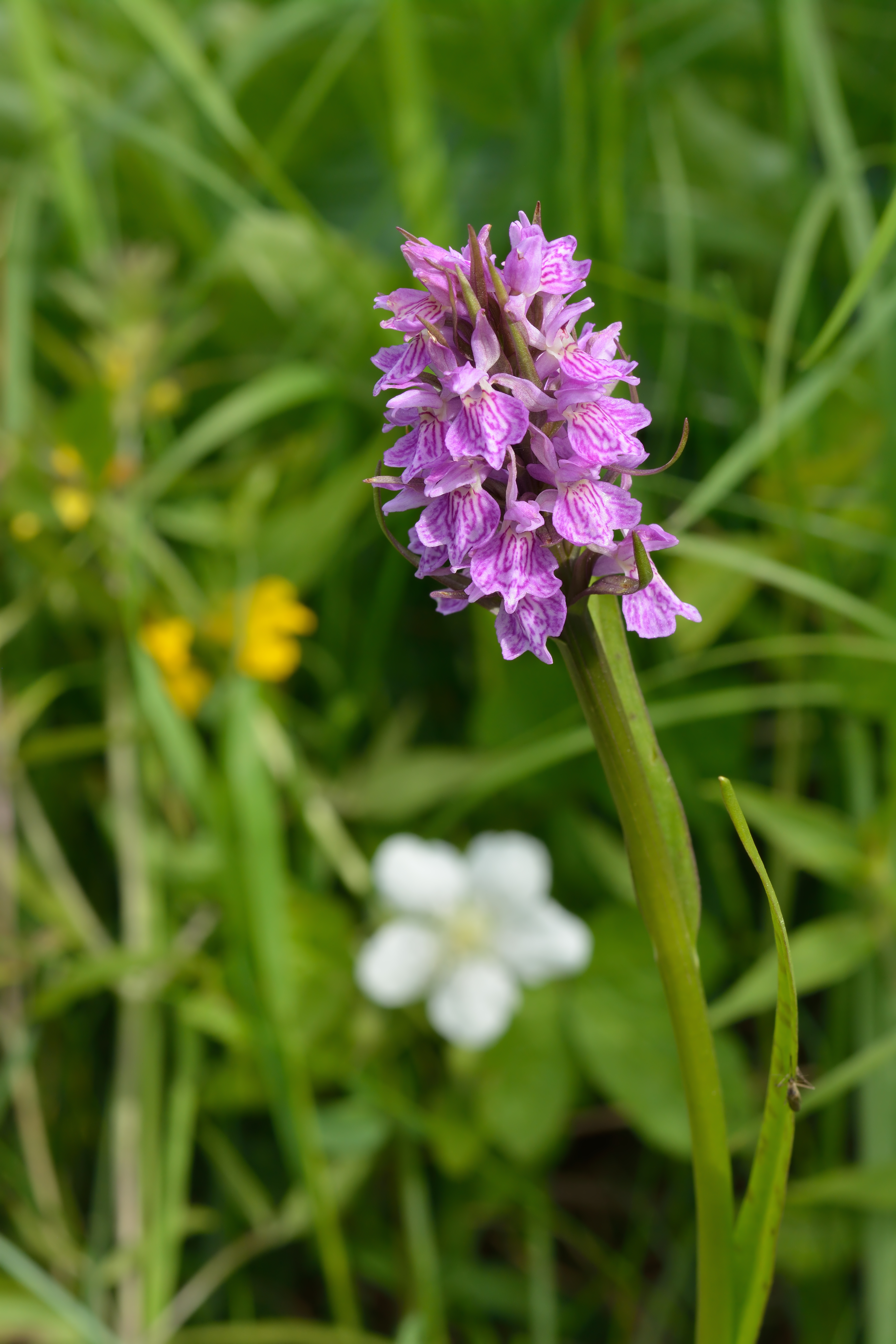 Dactylorhiza × kerneri nothosubsp. kerneri (Dactylorhiza fuchsii × Dact. incarnata subsp. incarnata) - natural habitat (alvar) in Käesalu, Northwestern Estonia.